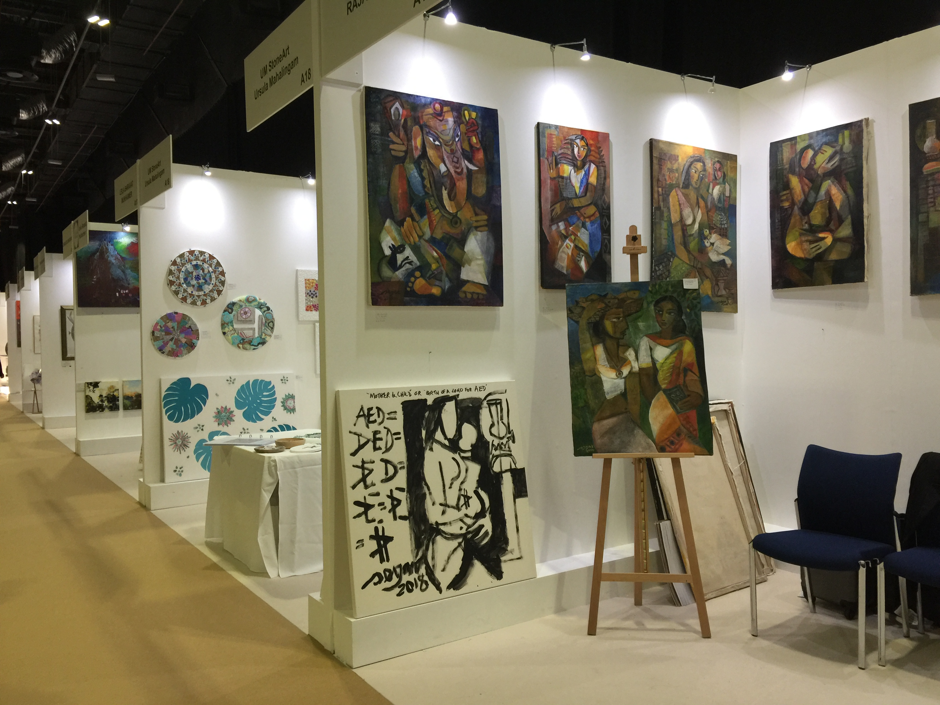 Exhibition of Segar Gallery in World Art Dubai